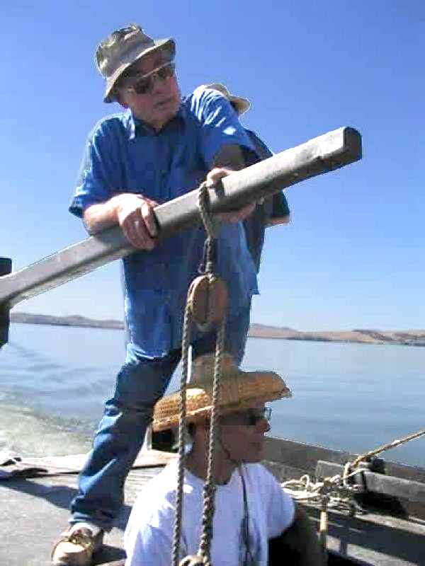 Third generation Chinese-American shrimp fisherman Frank Quan, at the tiller of the Grace Quan, a traditional junk named after his mother.